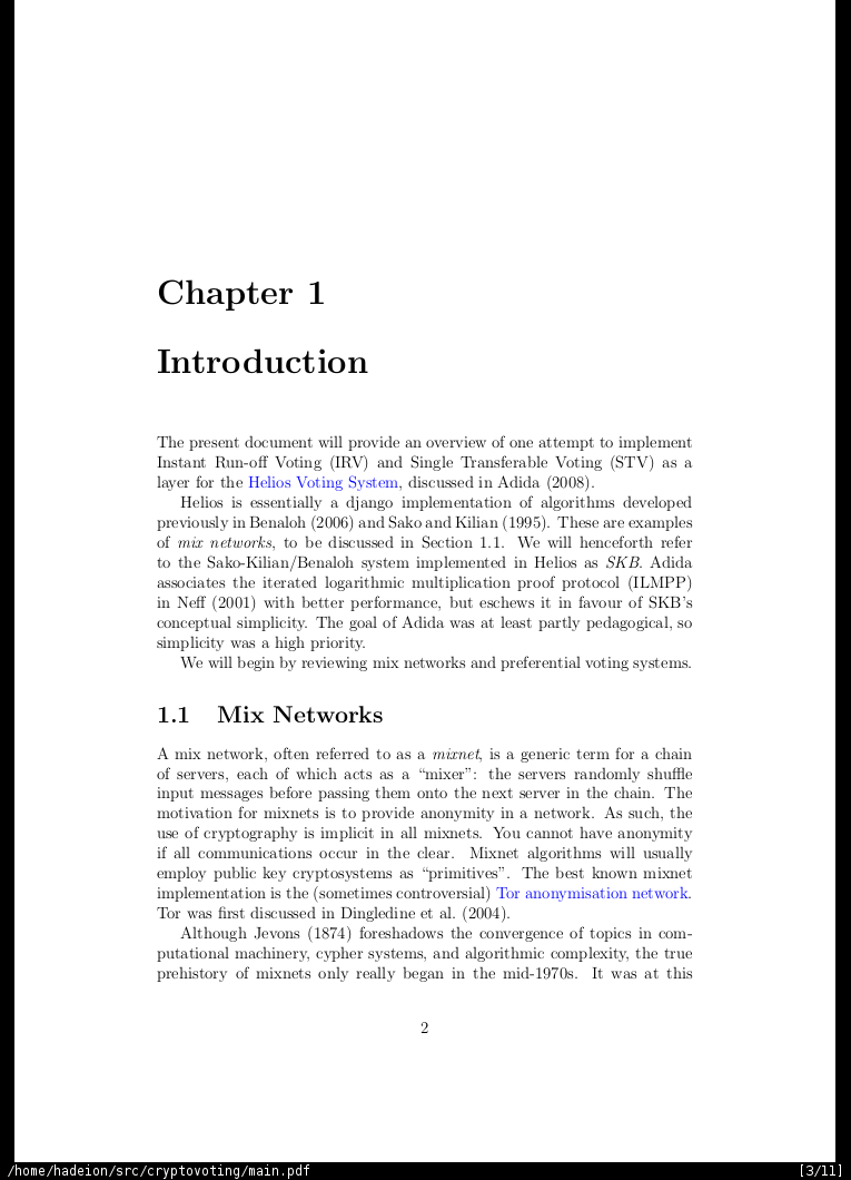 Screenshot of zathura viewing a PDF file in Arch Linux.